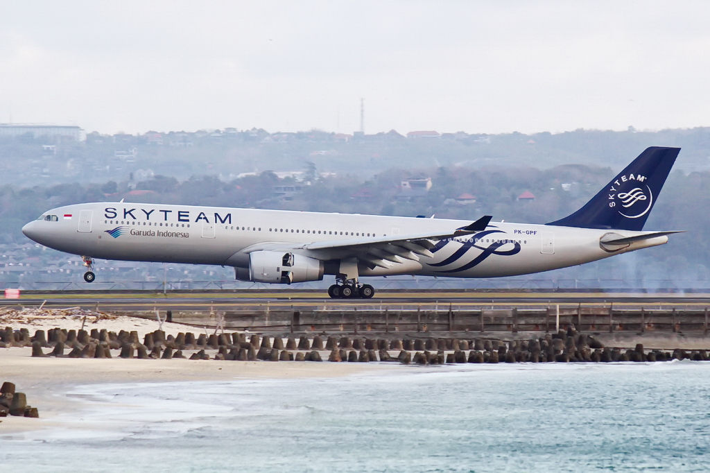 Arriving from Seoul Incheon as GA871. Garuda Indonesia (Skyteam Livery) Airbus A330-341 PK-GPF